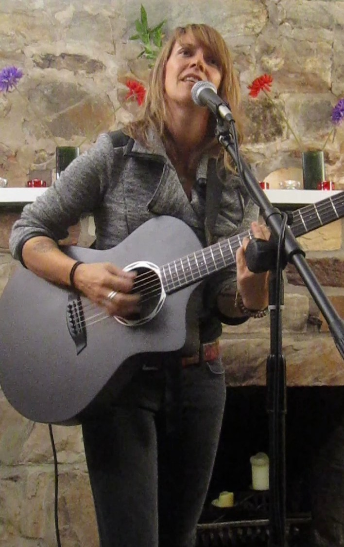 Patrice Pike at Stone Room Concert, Falls Church, VA, 11/10/2012